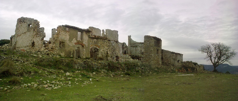 Village of Gallicant in Tarragona, Catalonia, Spain